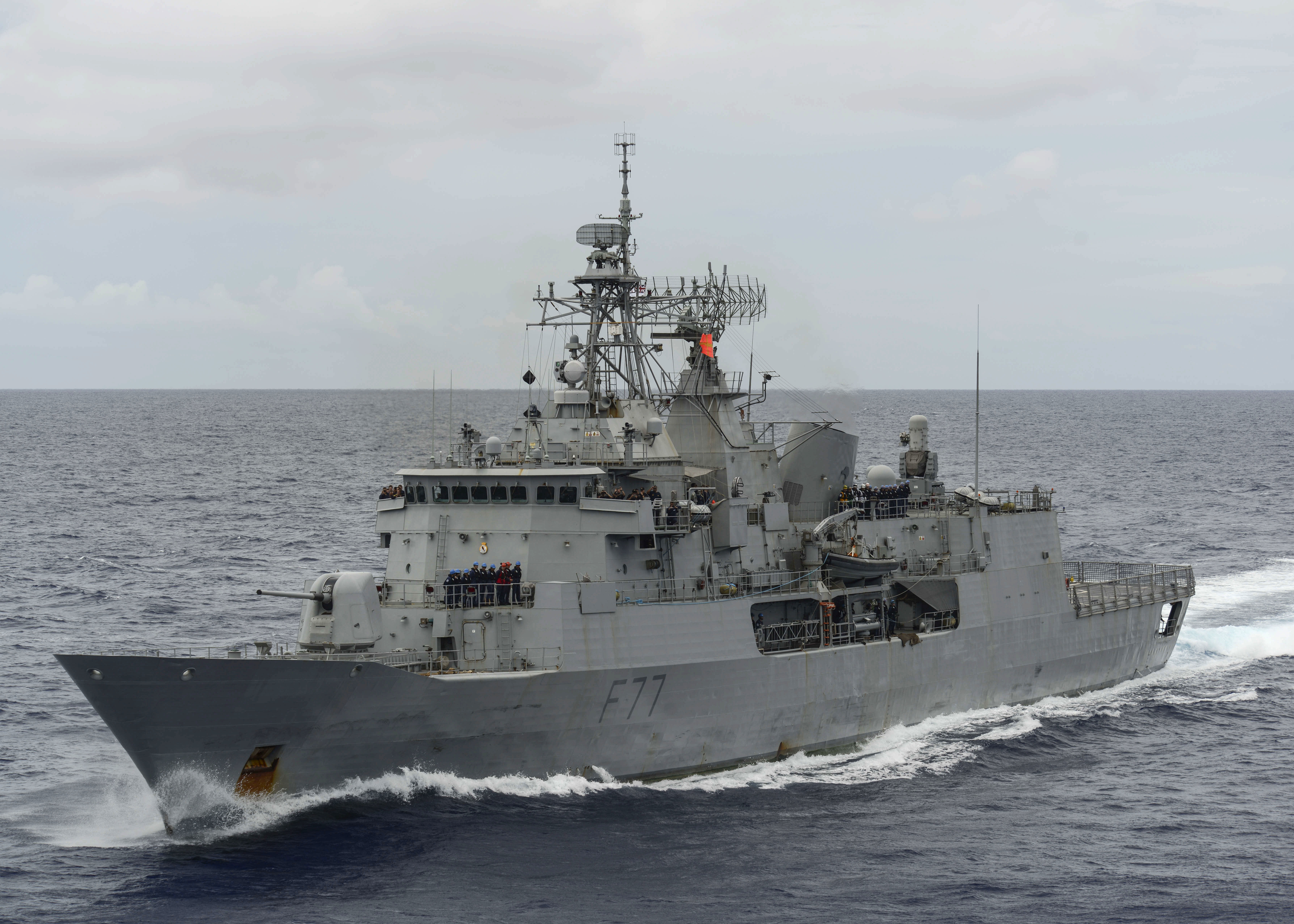 The Royal New Zealand Navy Anzac-class frigate HMNZS Te Kaha (F77) conducts a replenishment-at-sea with the U.S. Navy aircraft carrier USS Nimitz (CVN-68), not visible, in the Philippine Sea on 2 July 2017. Sailors from Te Kaha and Carrier Strike Group (CSG) 11 were conducting a series of bilateral training operations designed to increase interoperability and readiness.